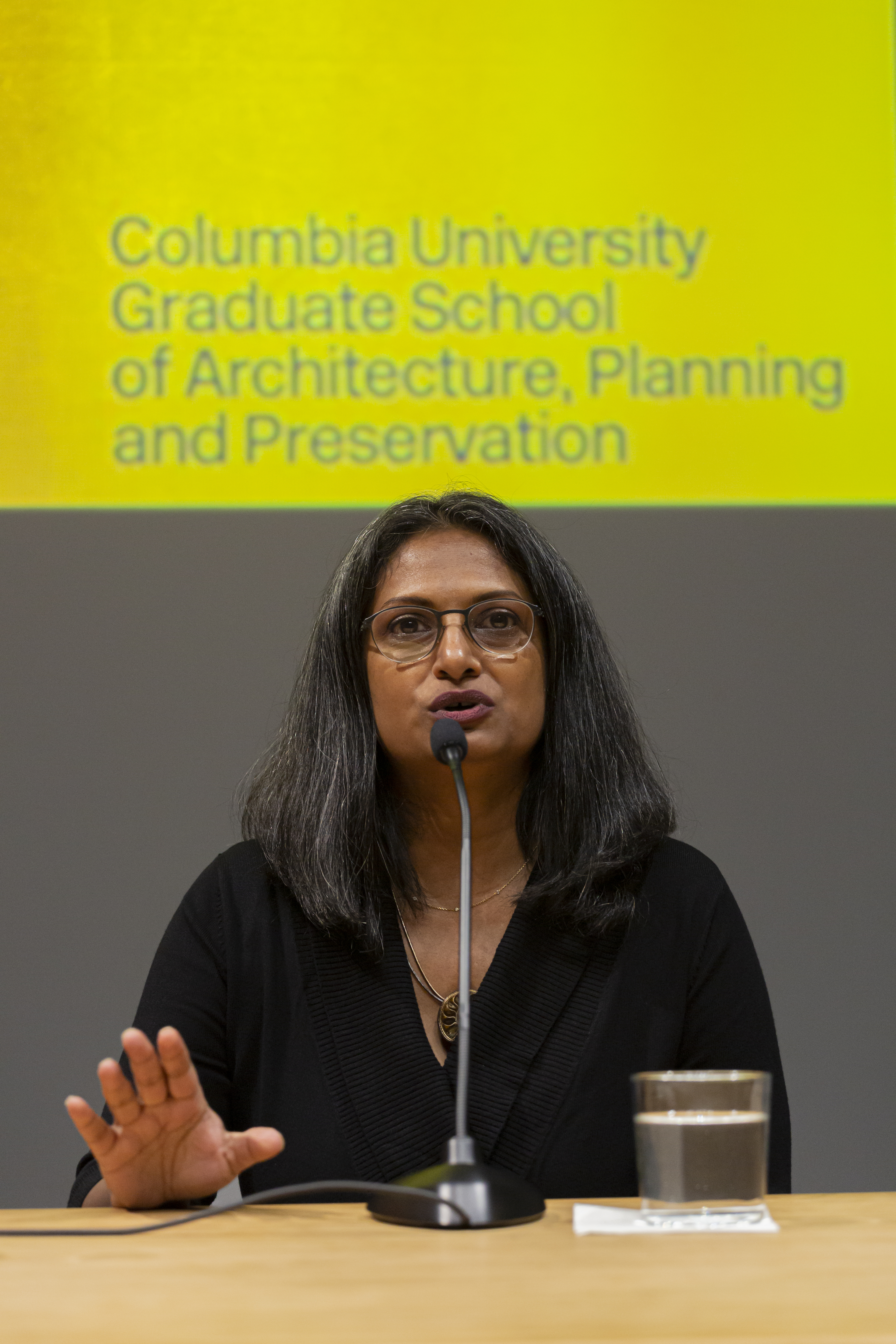 A lecture by Marina Tabassum with response by Columbia GSAPP Professor, Kenneth Frampton. (